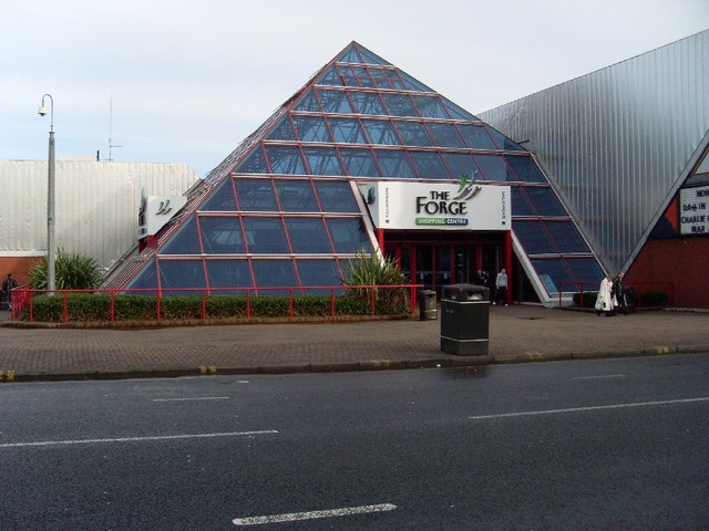 The Forge's Entrance Pyramid Viewed from the Gallowgate.